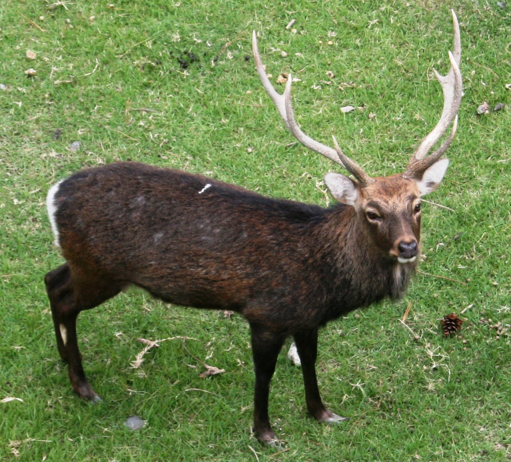 Sika Deer in Nagoya Castle